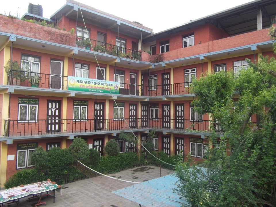 Peace Garden School near Kathmandu, Nepal. The school is supported by Birkdale School who makes annual visits. Photograph taken in April 2012 on one such trip.